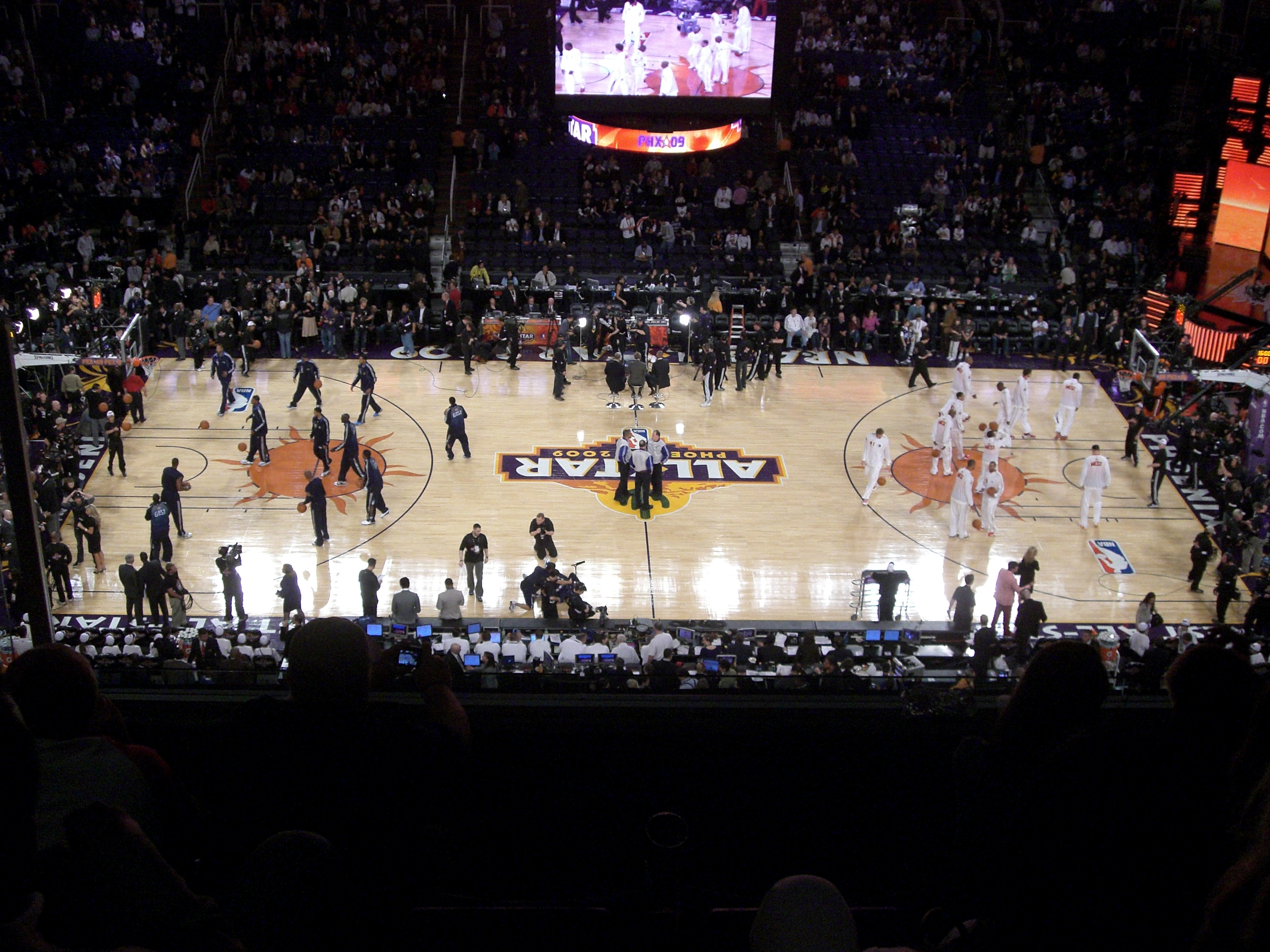 en:2009 NBA All-Star Game at the US Airways Center in Phoenix, Arizona